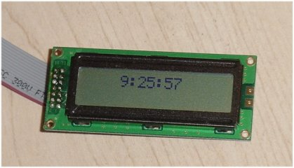 This is an example of a 16x2 character LCD